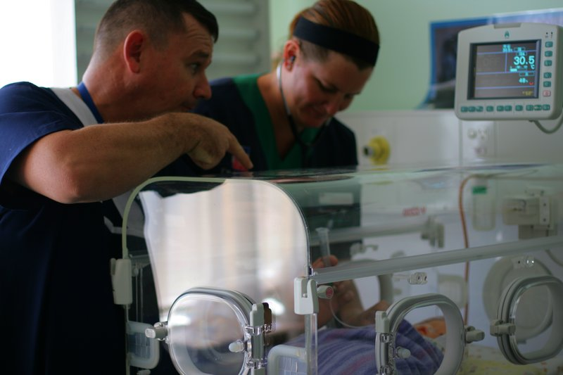 Nurses working to bring comfort to a sick baby. babies become very stressed when exposed to cold and are especially prone to cold stress when fighting disease. Nurses and midwives protect vulnerable babies in warm incubators.Geraldton Western Australia